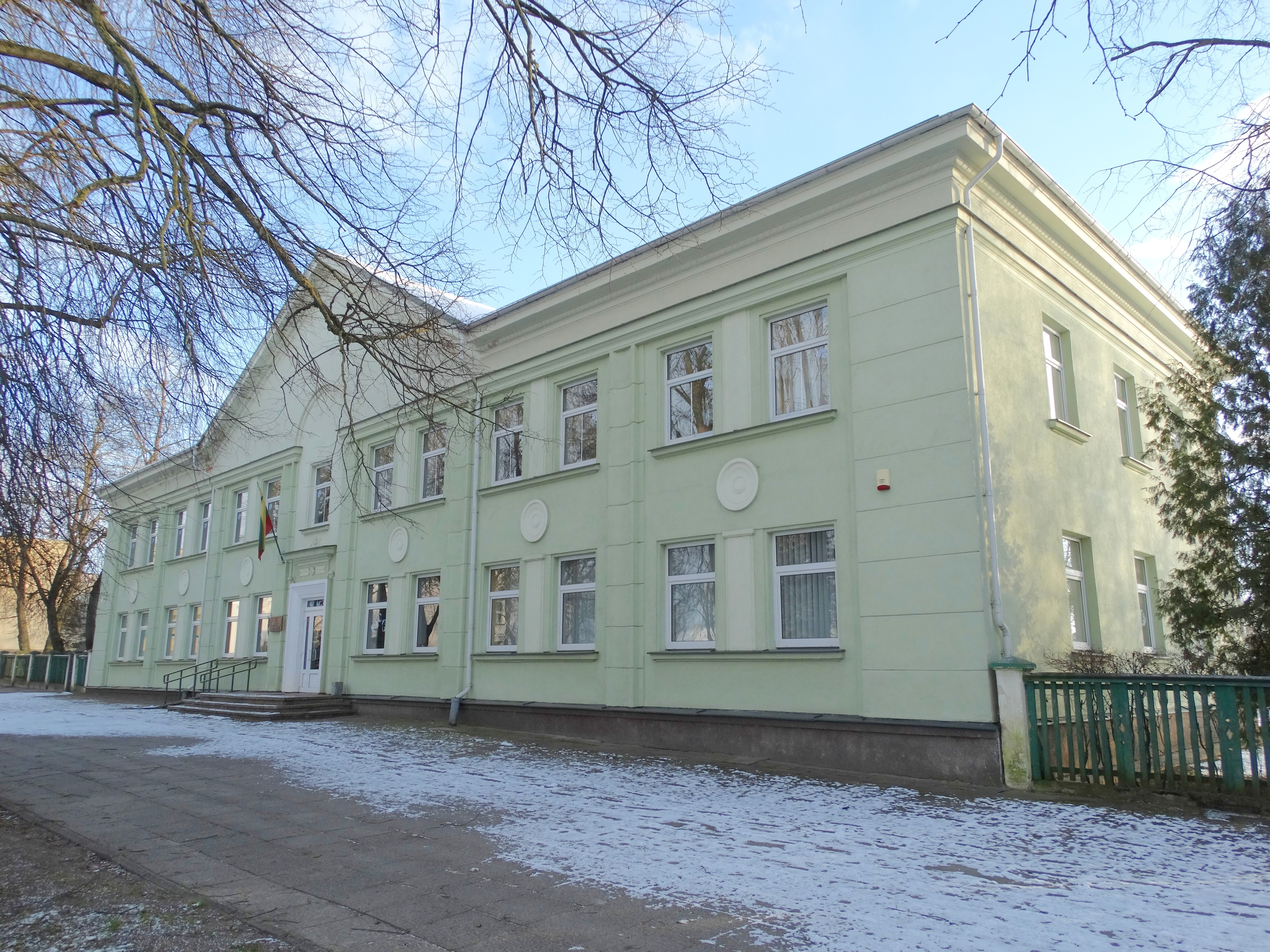 Court, Pakruojis, Lithuania